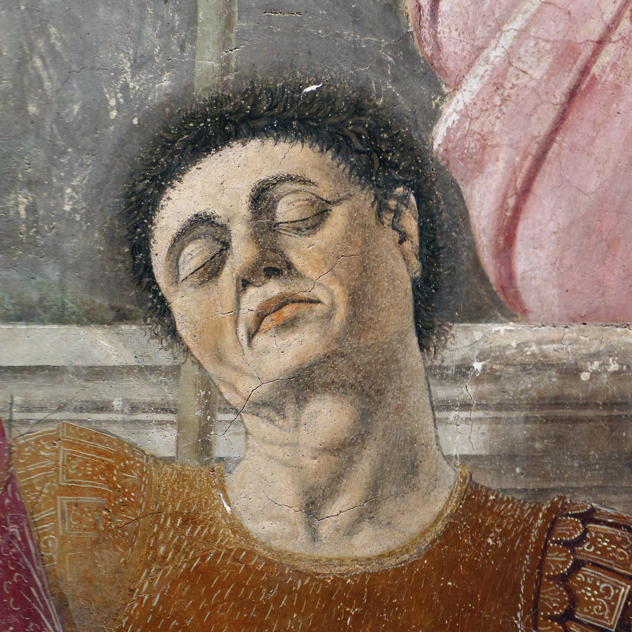 Piero della Francesca, The Resurrection, detail